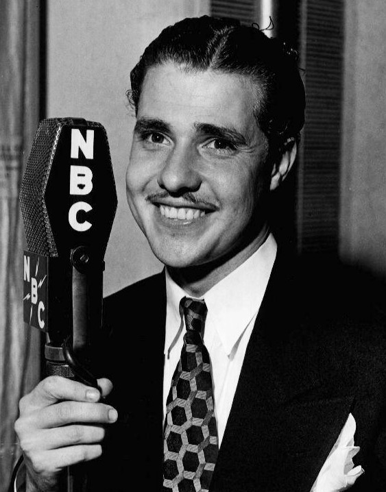 Photo of radio actor Jim Ameche. This is the brother of Don Ameche; he also looks a lot like him.